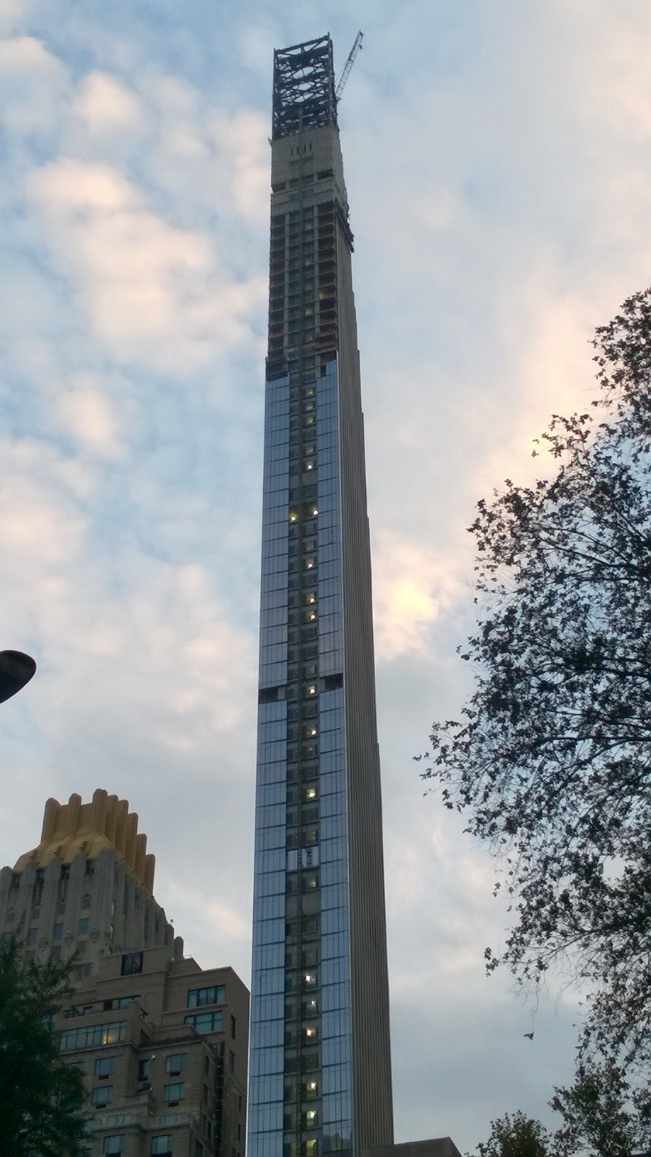 111 West 57th Street in NYC, under construction on September 28, 2019.